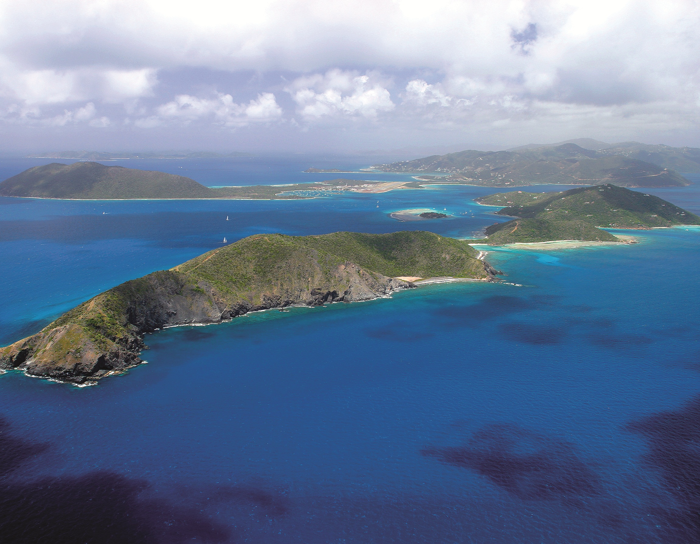 Scrub Island Resort, Spa & Marina Airport Aerial